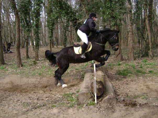 Olympe de Fontaine, Cob Normand mare on cross